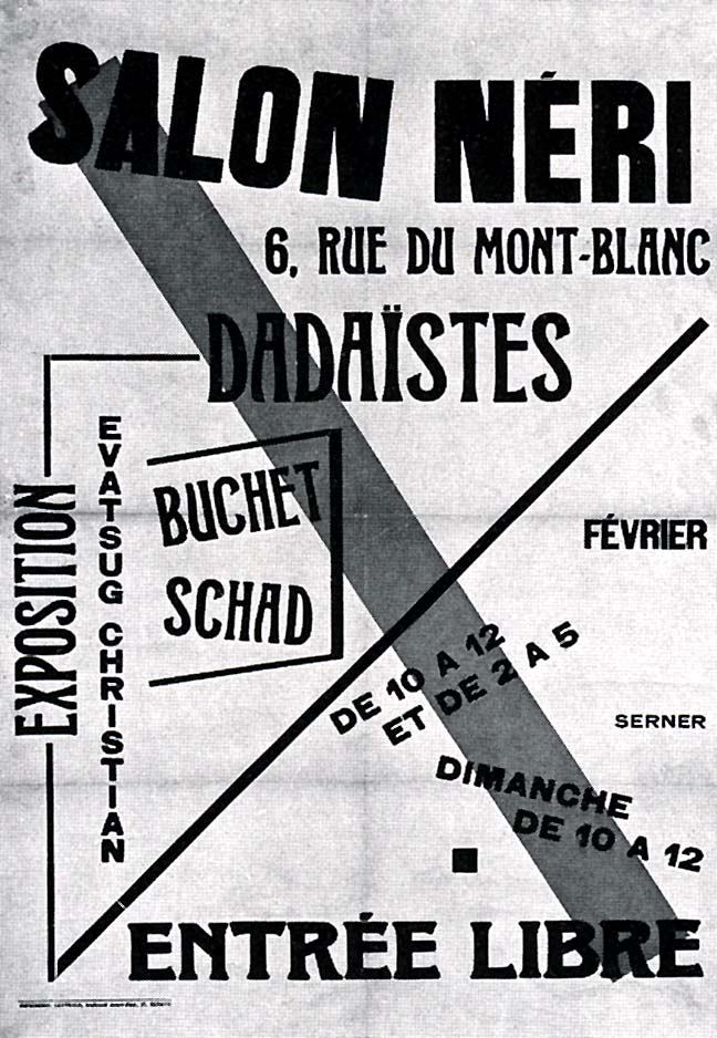 DaDa exhibit, Switzerland, febr. 1920.